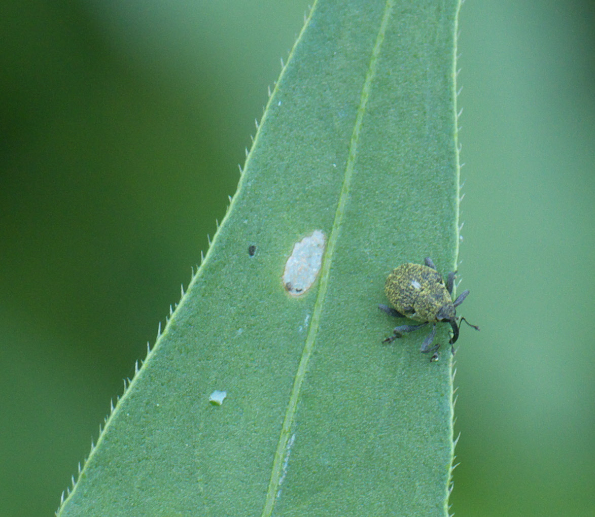 Homorosoma sulcipenne, Subfamily: Minute Seed Weevils, ID Confidence: 98